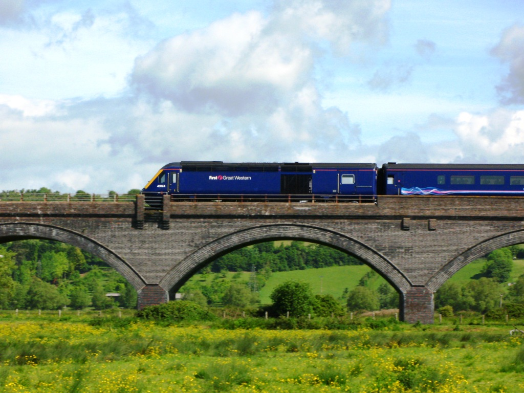 Langport Viaduct carries the London to Penzance main line across a flood plain of the River Parrett at Langport in Somerset. The train is a Penzance to London service with First Great Western power car 43124 at the rear.